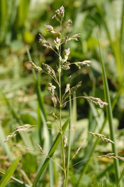 Poa pratensis from Commanster, Belgian High Ardennes .